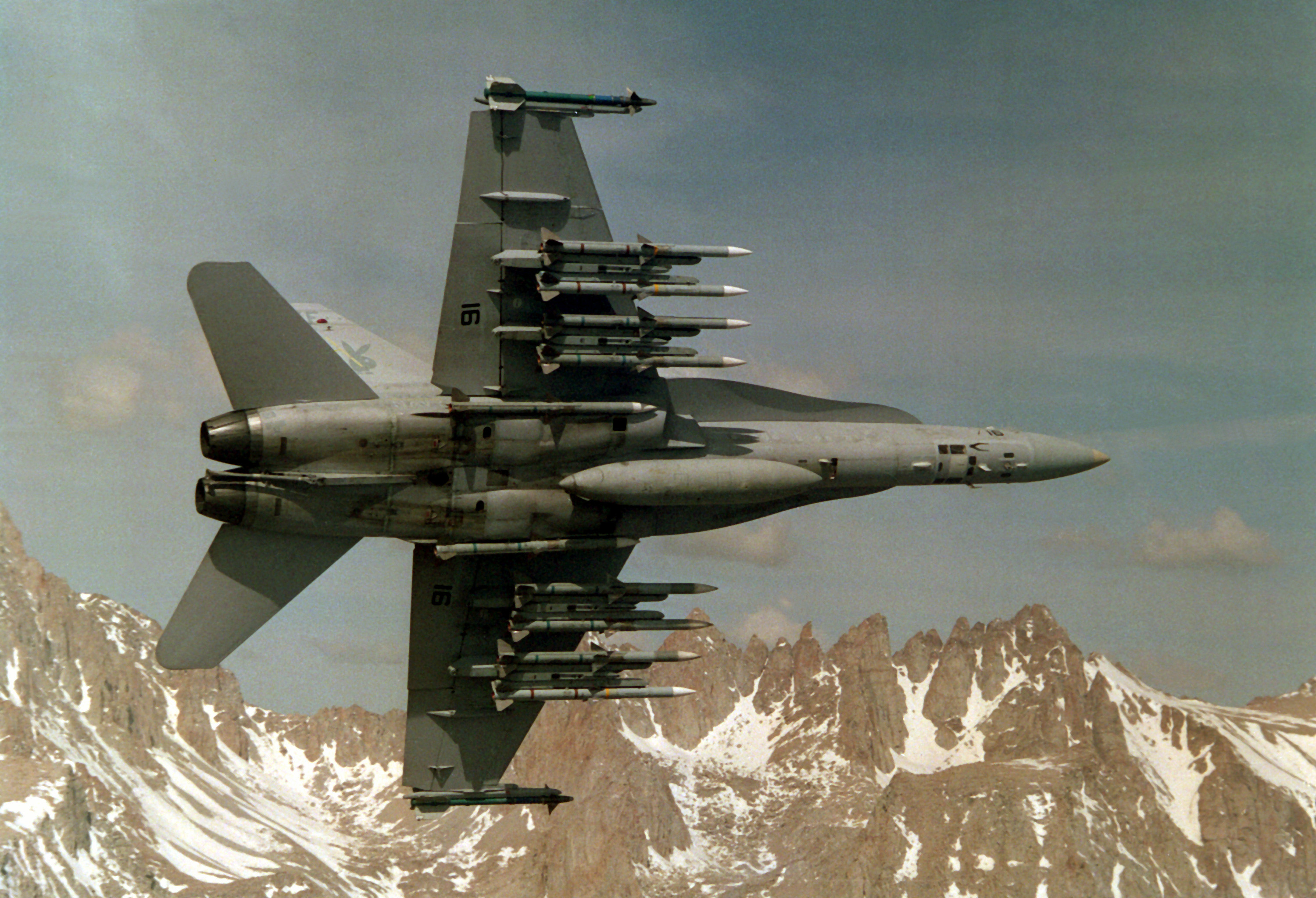 An underside view of an Air Test and Evaluation Squadron 4 (VX-4) F/A-18C Hornet aircraft in-flight. VX-4 is testing and evaluating the AIM-120 advanced medium range air-to-air missile (AMRAAM). The Hornet is armed with eight AMRAAMs on four wing pylons and two AMRAAMs on the fuselage. The Hornet also carries two AIM-9 Sidewinder missiles, one on each wing tip.